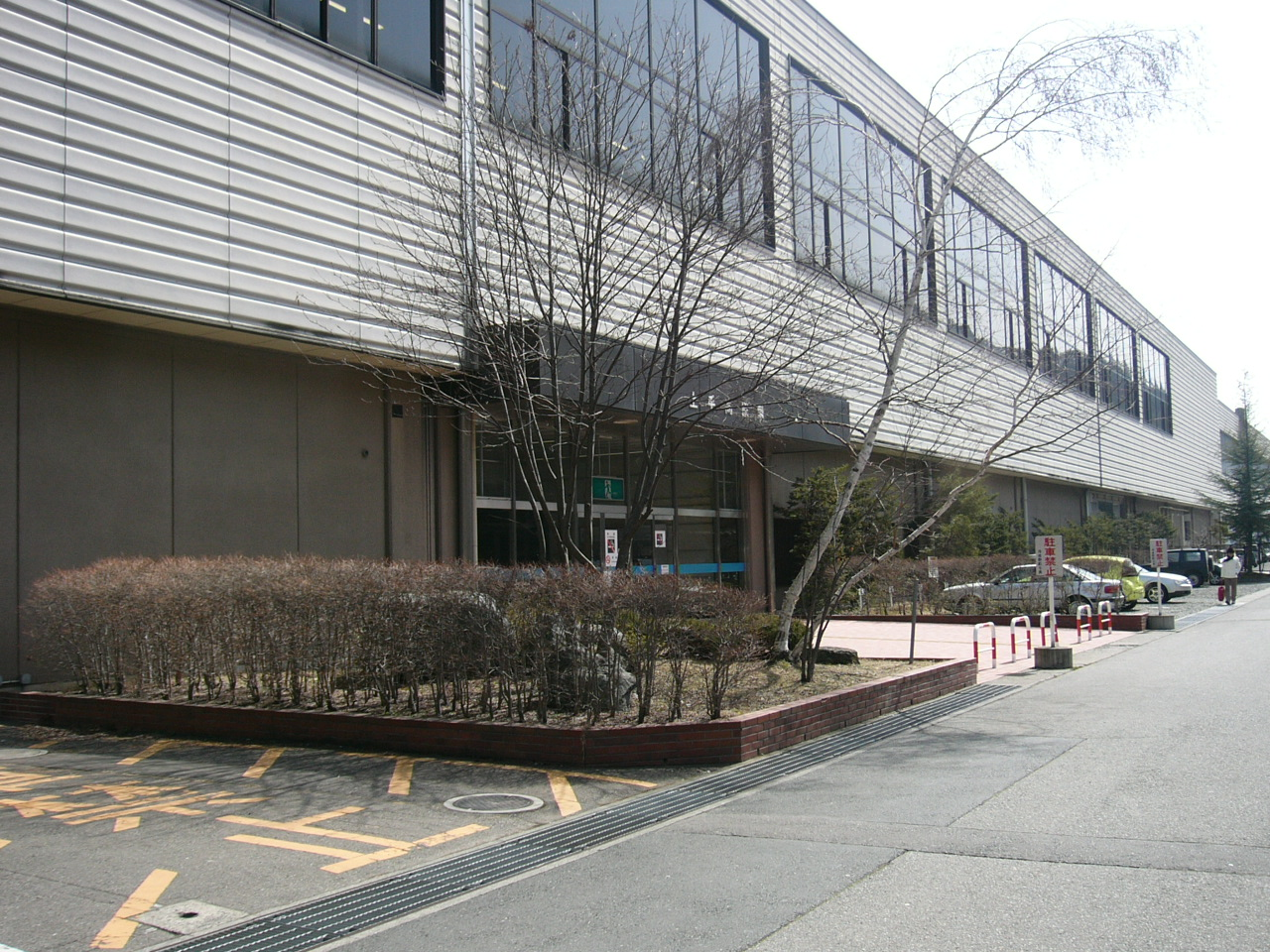 Jomo-Kogen Station (West Entrance)